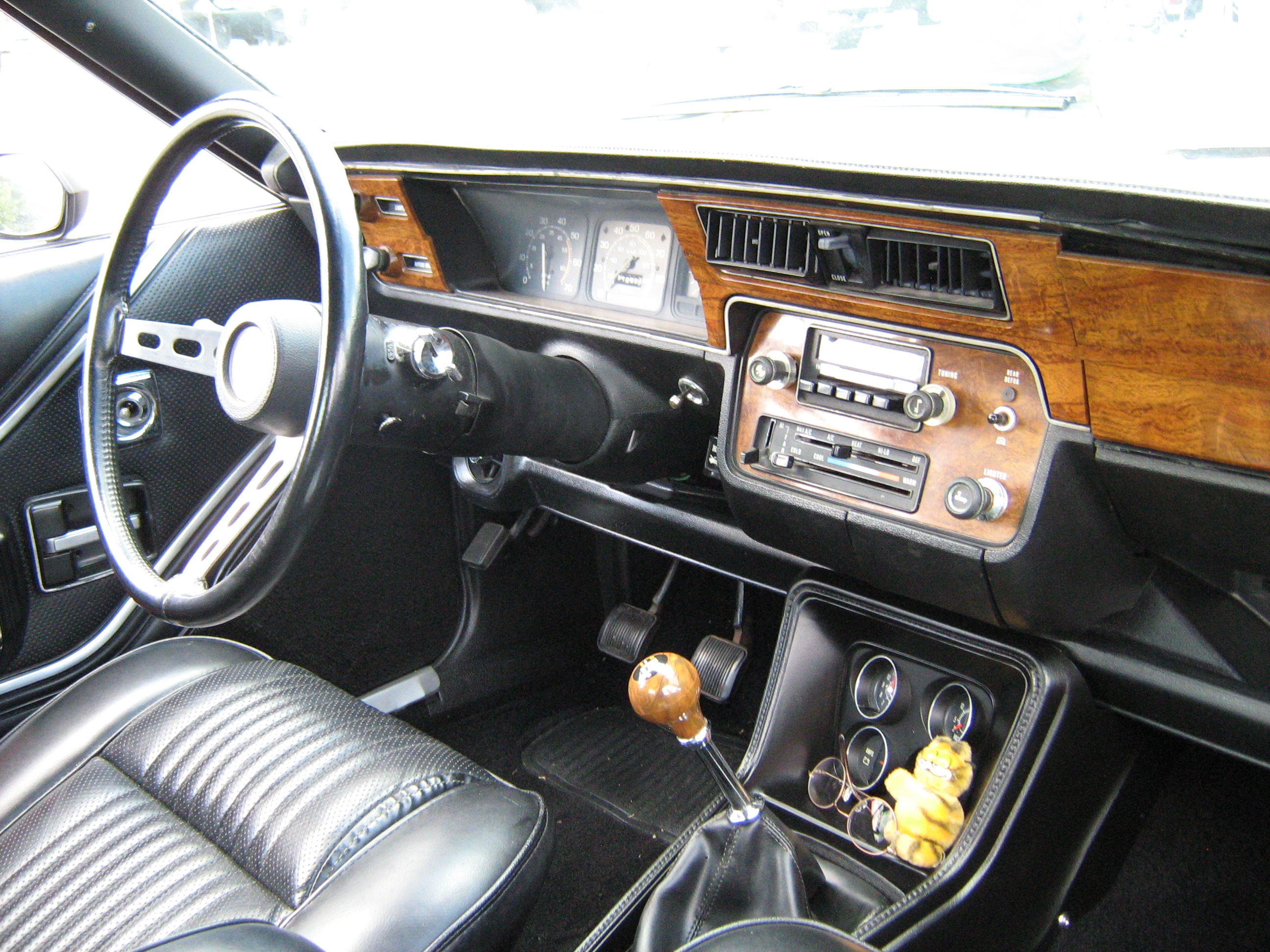 1979 AMC Spirit GT. A subcompact 2-door liftback with factory 304 CID (5.0 L) V8 engine and four-speed manual transmission. Finished in Russet Metallic. Standard interior with GT package and center console "Rallye" Gauges, as well as the four-speed transmission shifter.